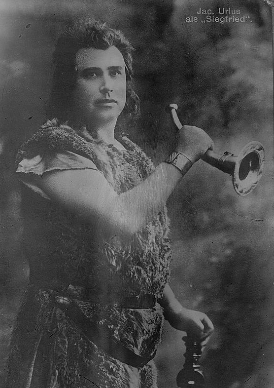 Dutch opera singer Jacques Urlus (1887-1935) as Siegfried